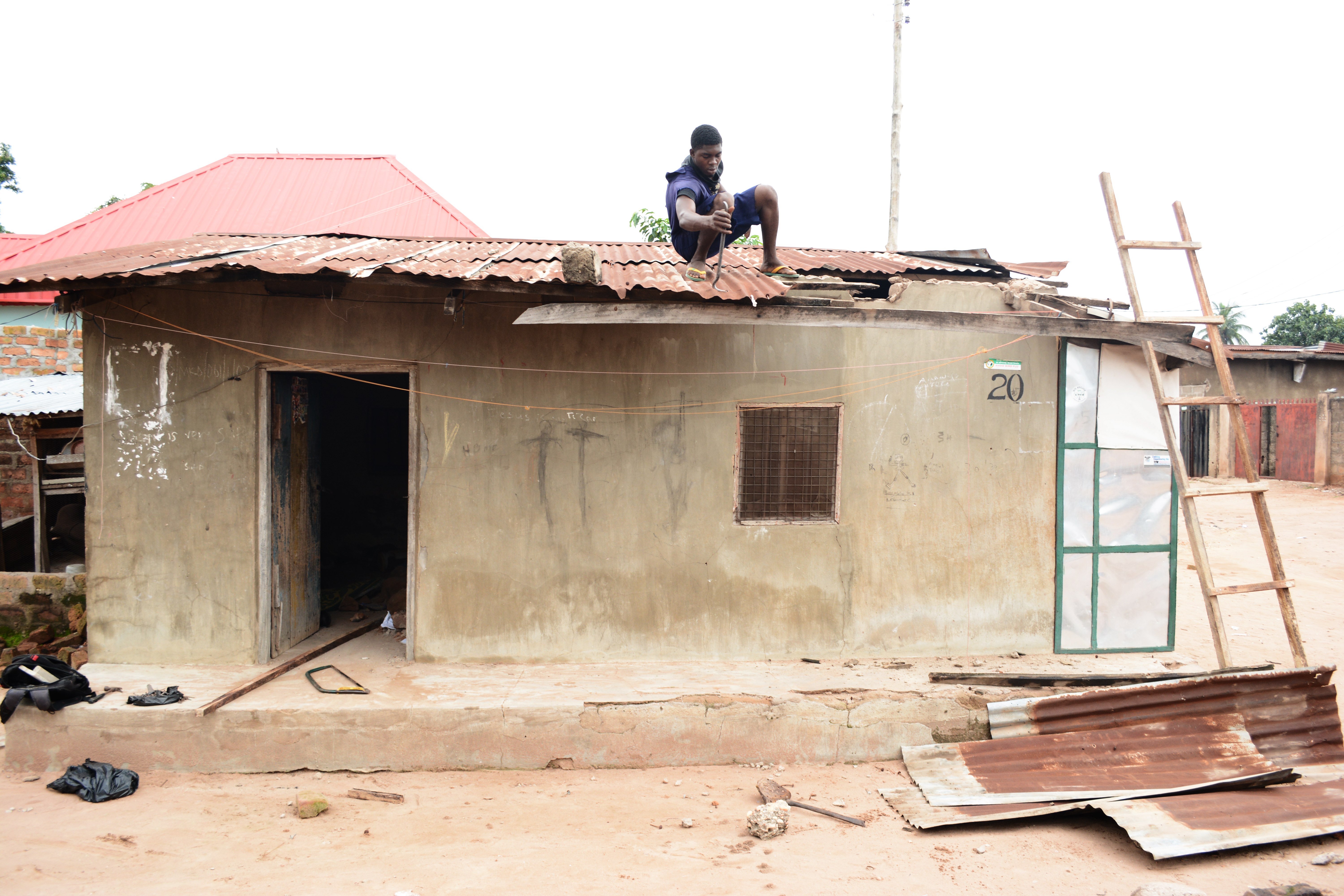 A roofer trying to repair a dilapidated building This is an image of "African people at work" from Nigeria